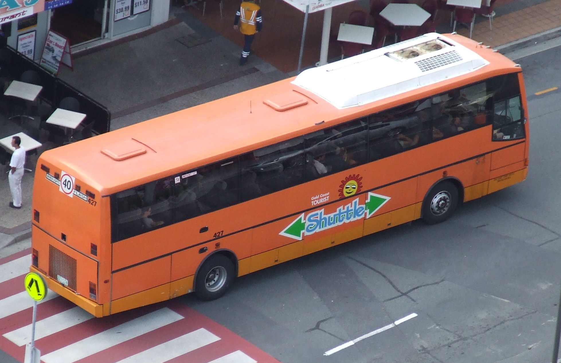 Gold Coast Airport shuttle